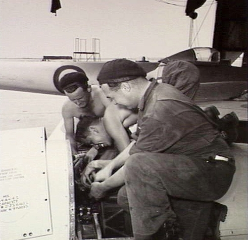 Iwakuni, Japan. RAAF fitters of No. 491 Maintenance Squadron work on the engine of one of No 77 Squadron's Meteor aircraft.